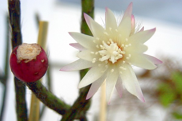 Rhipsalis pilocarpa, freshly potted cutting of a cactus with flowers and a fruit. Photo: Andreas Neudecker (2005)